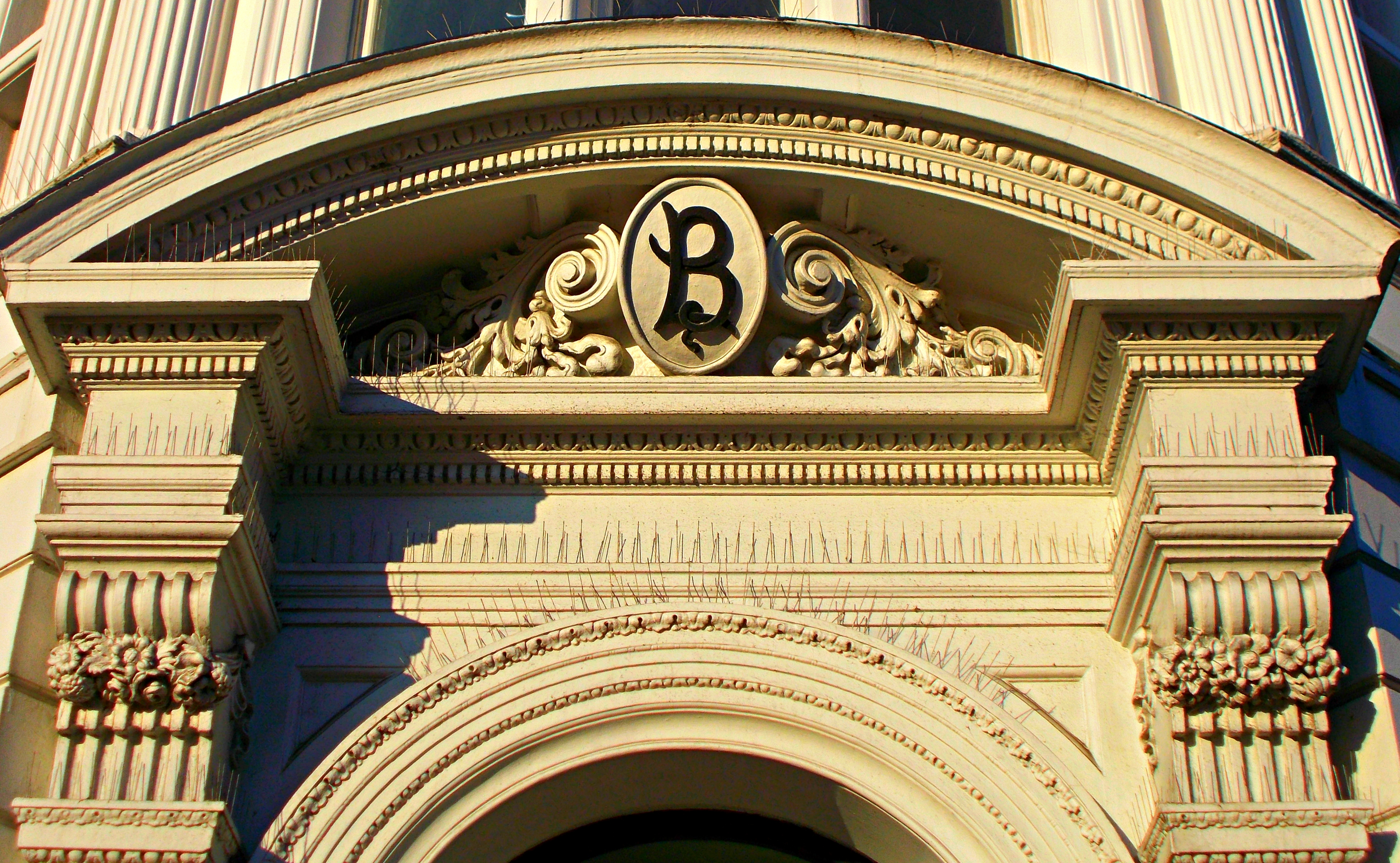 The grand and decorative London and Provincial Bank building (now home to Barclays Bank), which was built overlooking the historic crossroads in Sutton town centre in 1894. It is four storeys tall and forms a prominent landmark when arriving in the town centre. There is a series of arches at ground level, and the main entrance is on the corner where the two roads meet, rounded in shape and surrounded by an ornate architrave and segmental pediment.